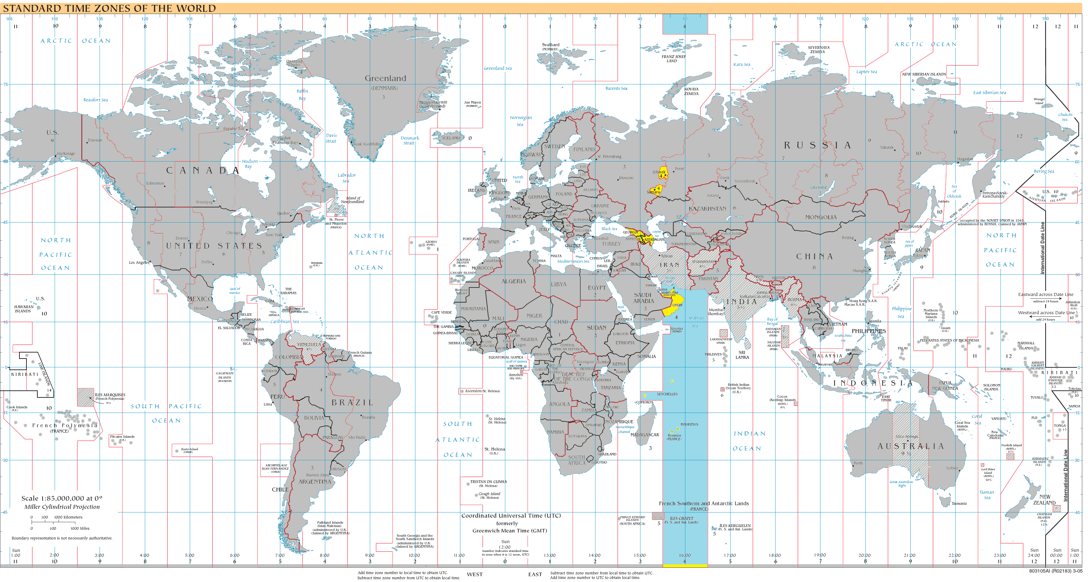 World map of time zones as of 2008, on the Miller Cylindrical Projection and with highlighted UTC+4 zone. Dark Blue - UTC+4 during Northern Winter / Southern Summer Orange - UTC+4 during Northern Summer / Southern Winter Yellow - UTC+4 all year round Light Blue - UTC+4 sea areas